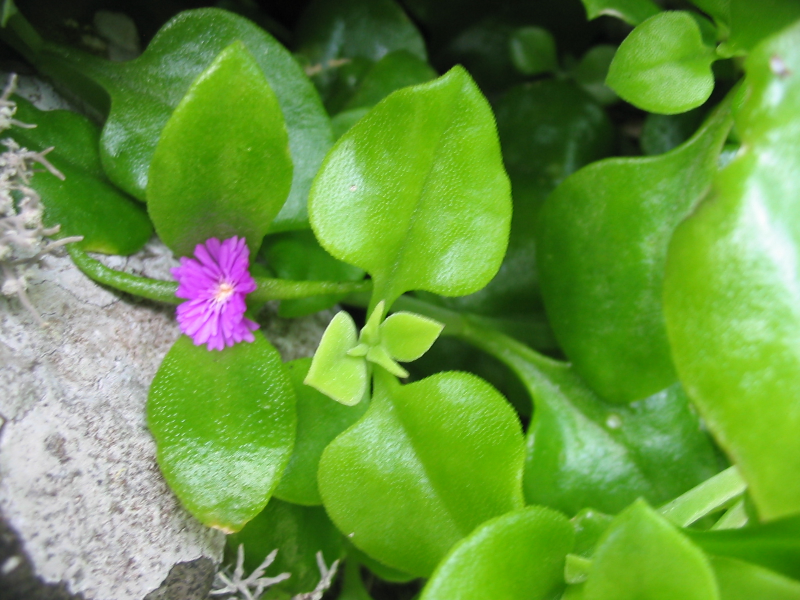 Herzblättrige Aptenia (Aptenia cordifolia) - Flower